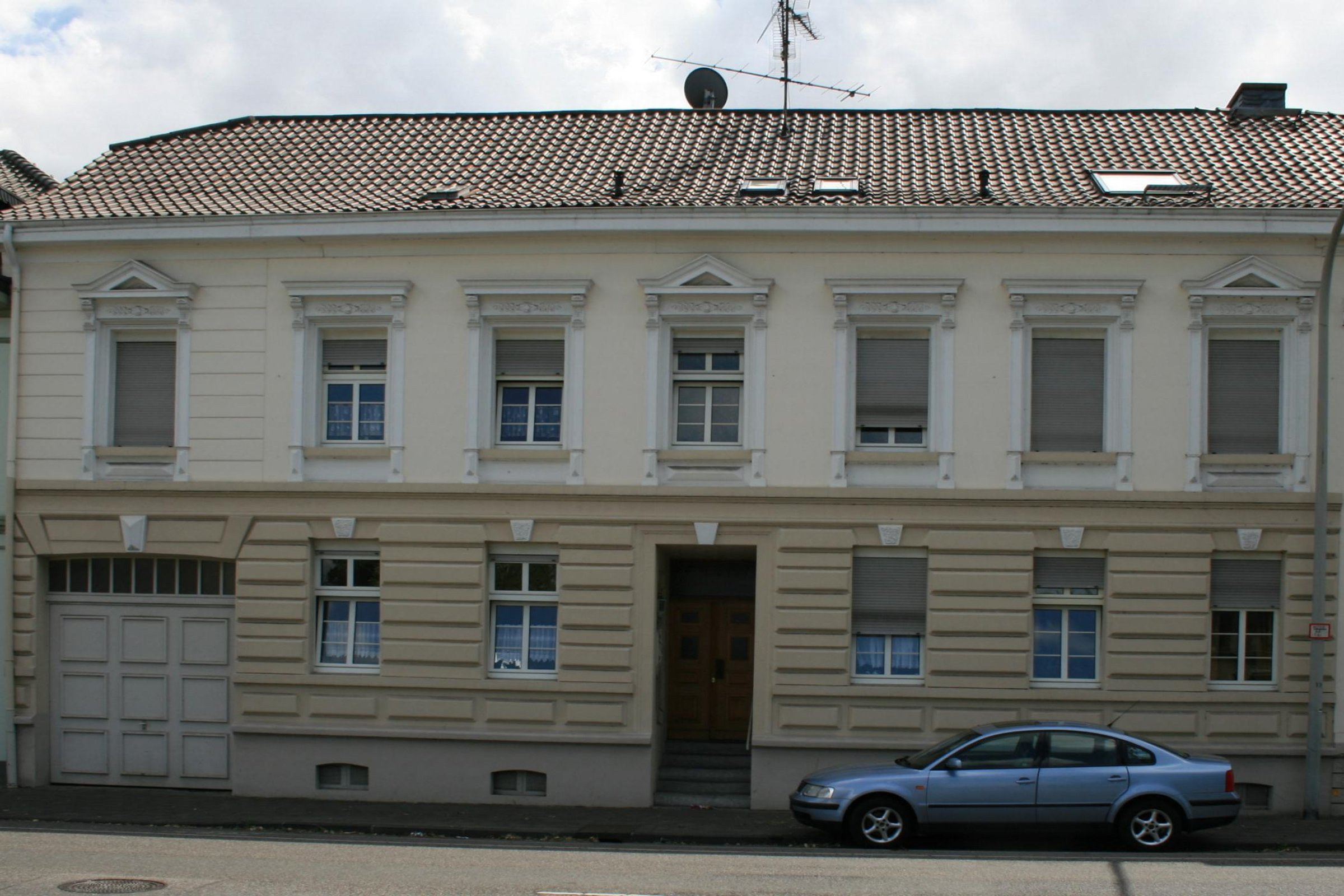 Cultural heritage monument No. D 024 in Mönchengladbach